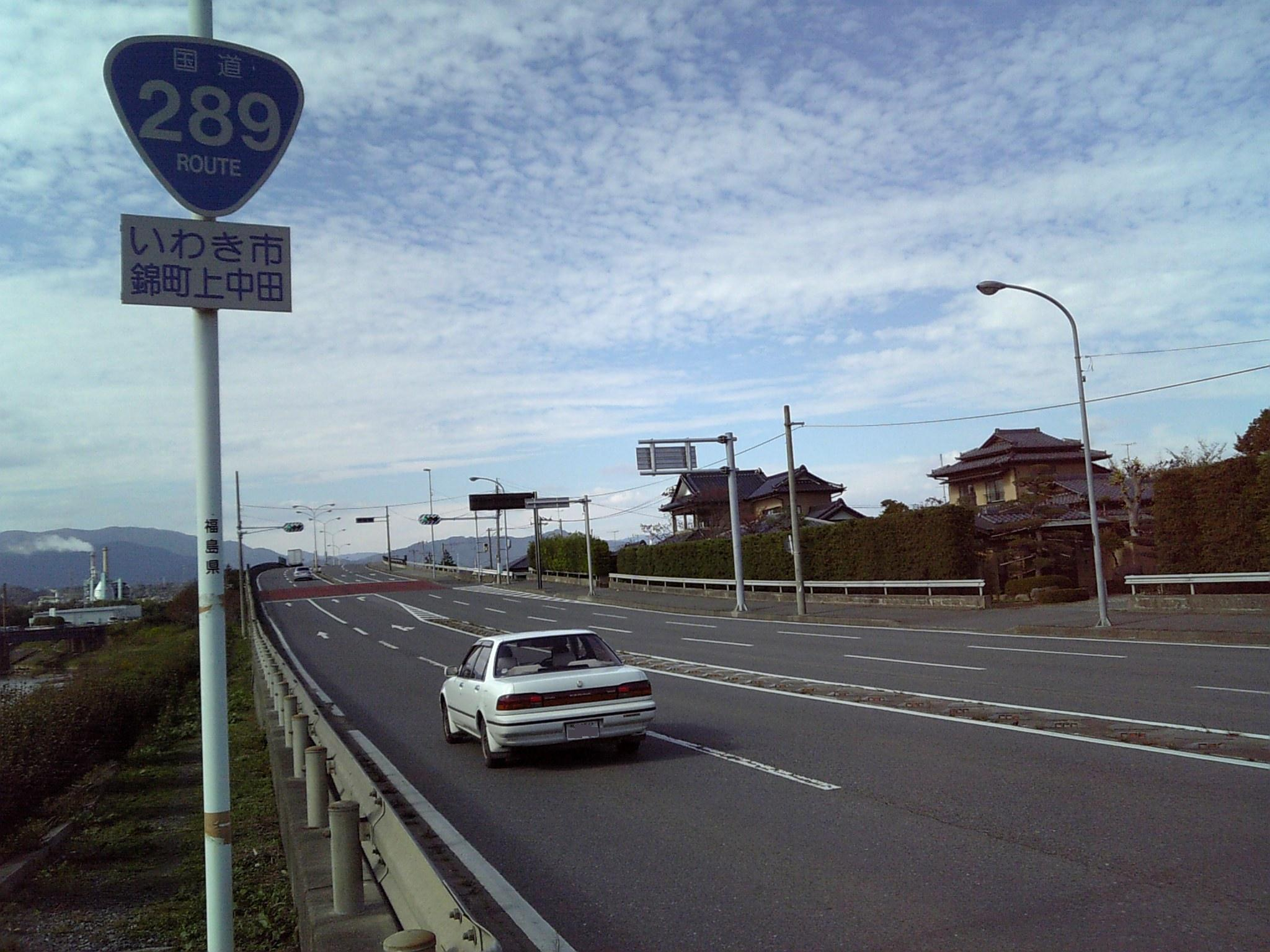 Iwaki, Fukushima Prefecture, Route 289